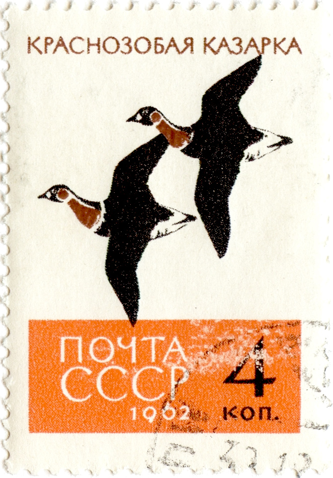 Red-breasted Goose. Post of USSR 1962.